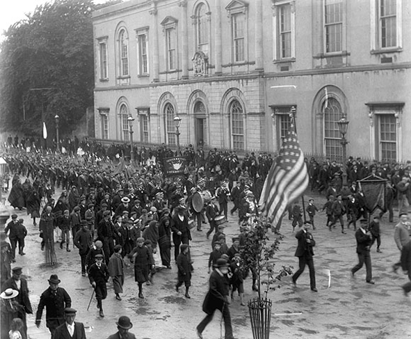 See this one's companion photo to find out how the exact date of this event was established... Date: Sunday, 28 May 1898 NLI Ref.: POOLEIMP 563